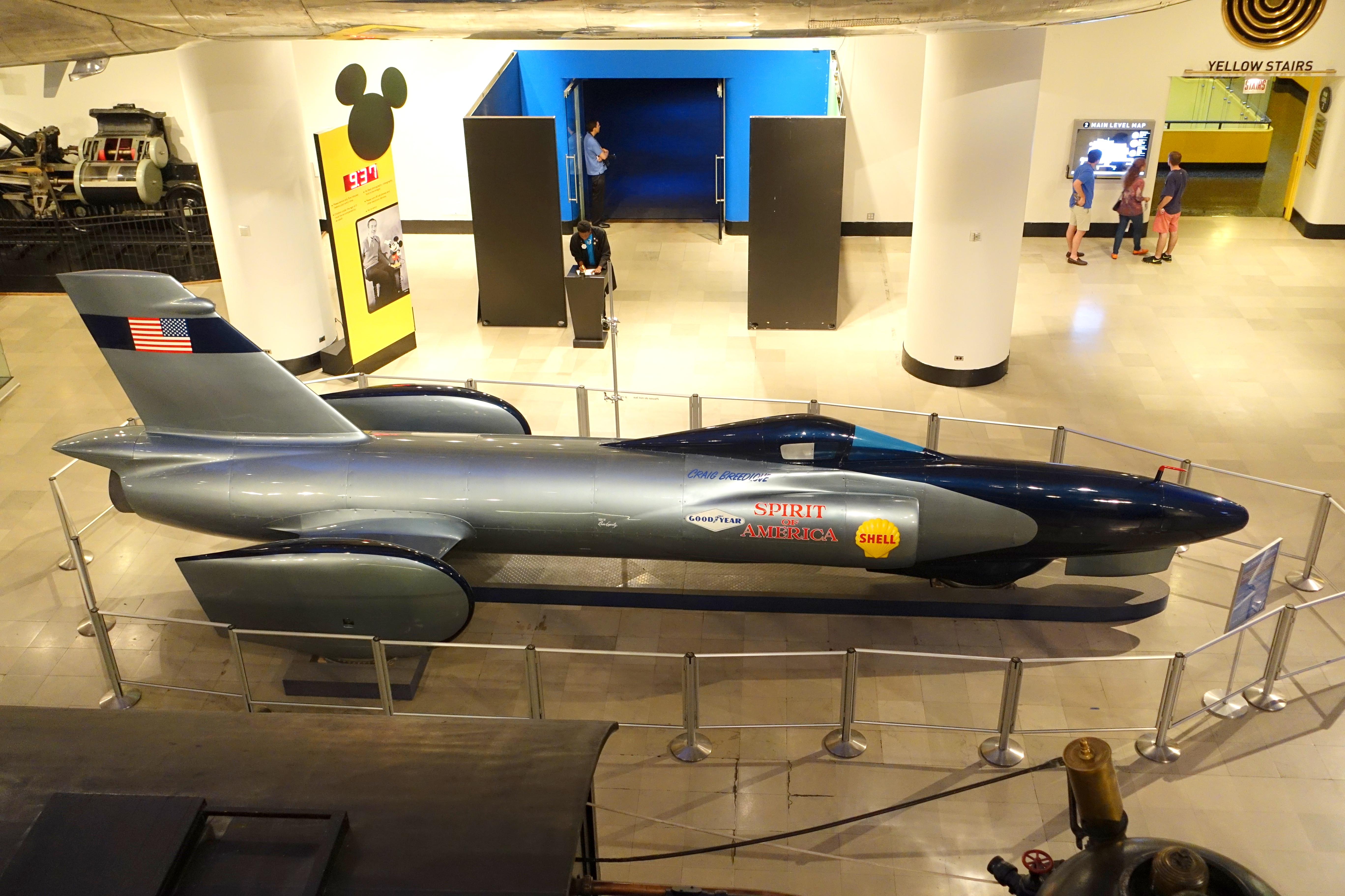 Exhibit in the Museum of Science and Industry, Chicago, Illinois, USA.